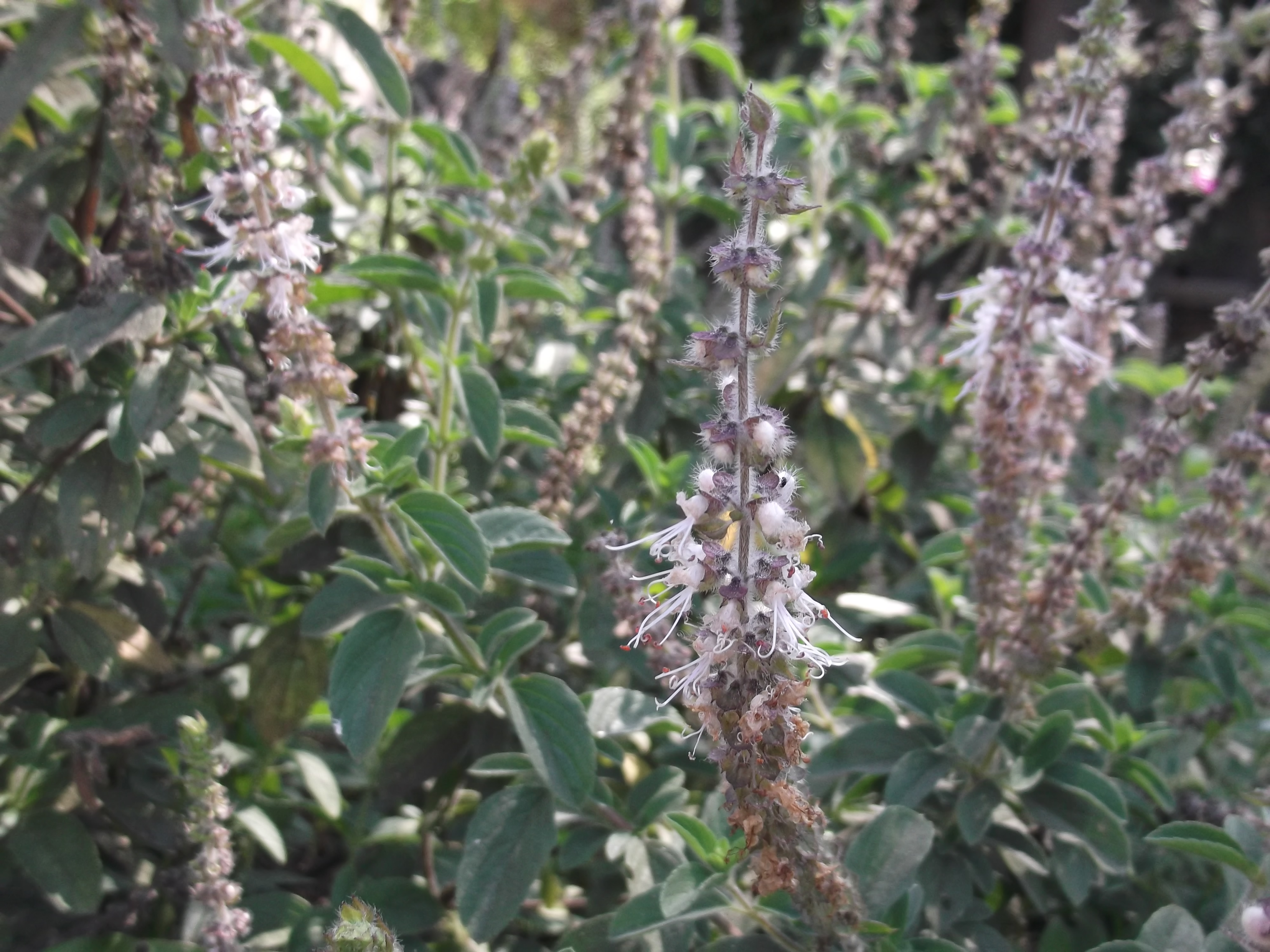 Aromatic plant,flowes dull white to pale pink white,anthers orange.